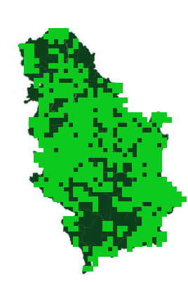 Coenonympha_pamphilus - map of distribution in Serbia